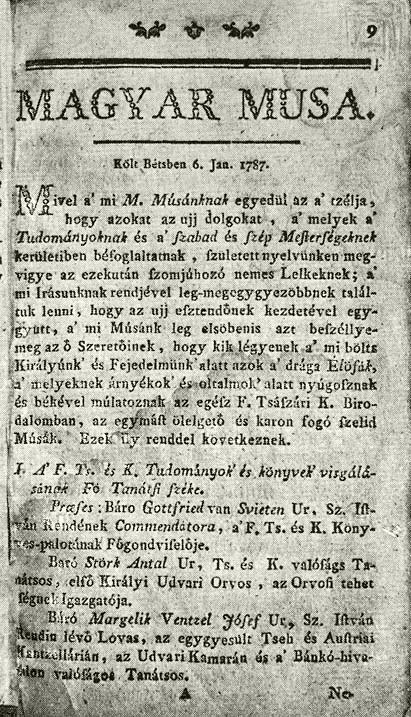 Newspaper from Hungary,Magyar Musa, 1787